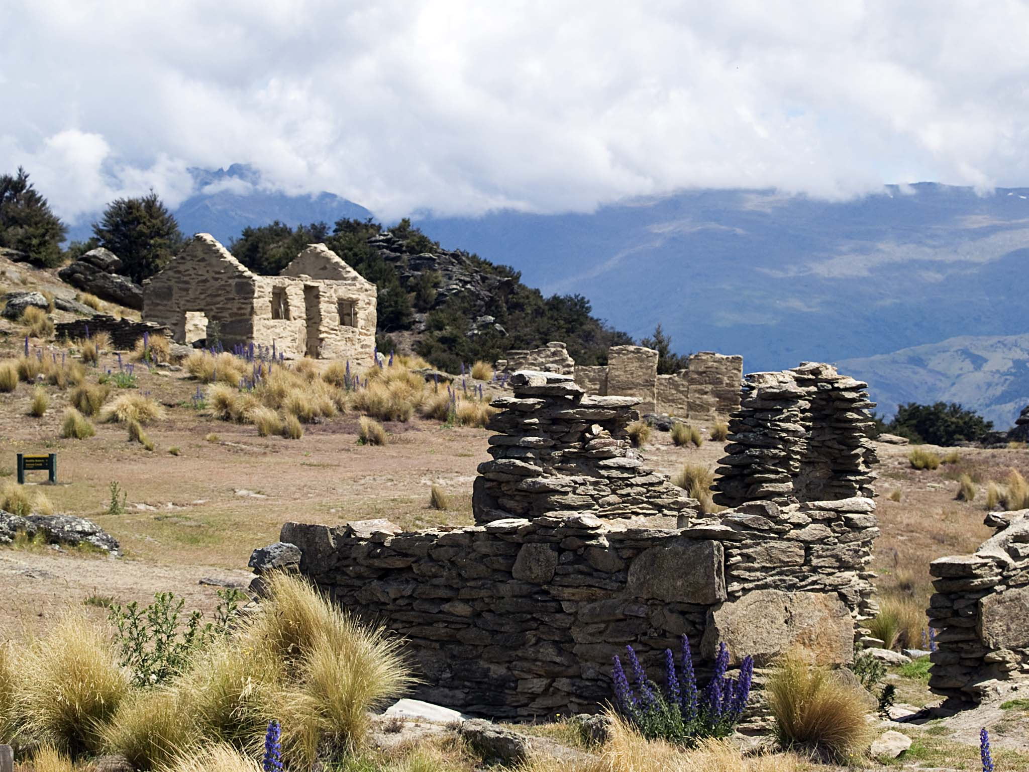 Ruine of an old gold mining town, Welshtown (1869-1880), Cromwell, Otago, New Zealand.